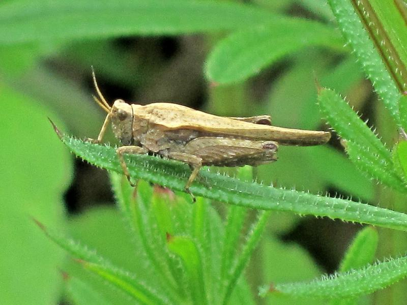 Tetrix subulata (Tetrigidae sp.), Elst (Gld), the Netherlands